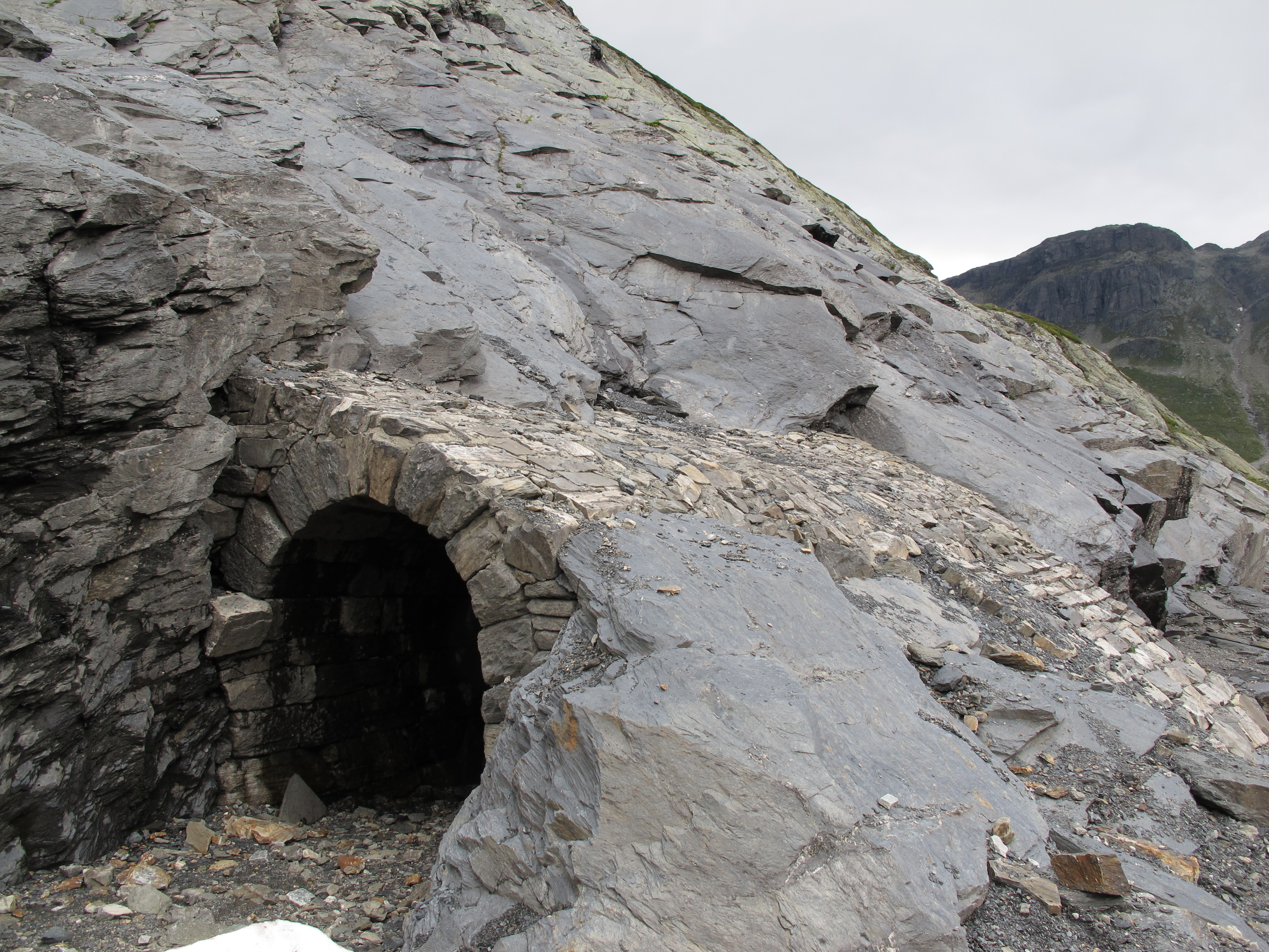 The old Dyrskar tunnell from aroun 1900. Picture taken from west end. First part of the tunnel is a built up part to protect from avalanche and rock falls. Rest is cut through brittle slate. Very porus. Tunnel has collapsed in some sections.